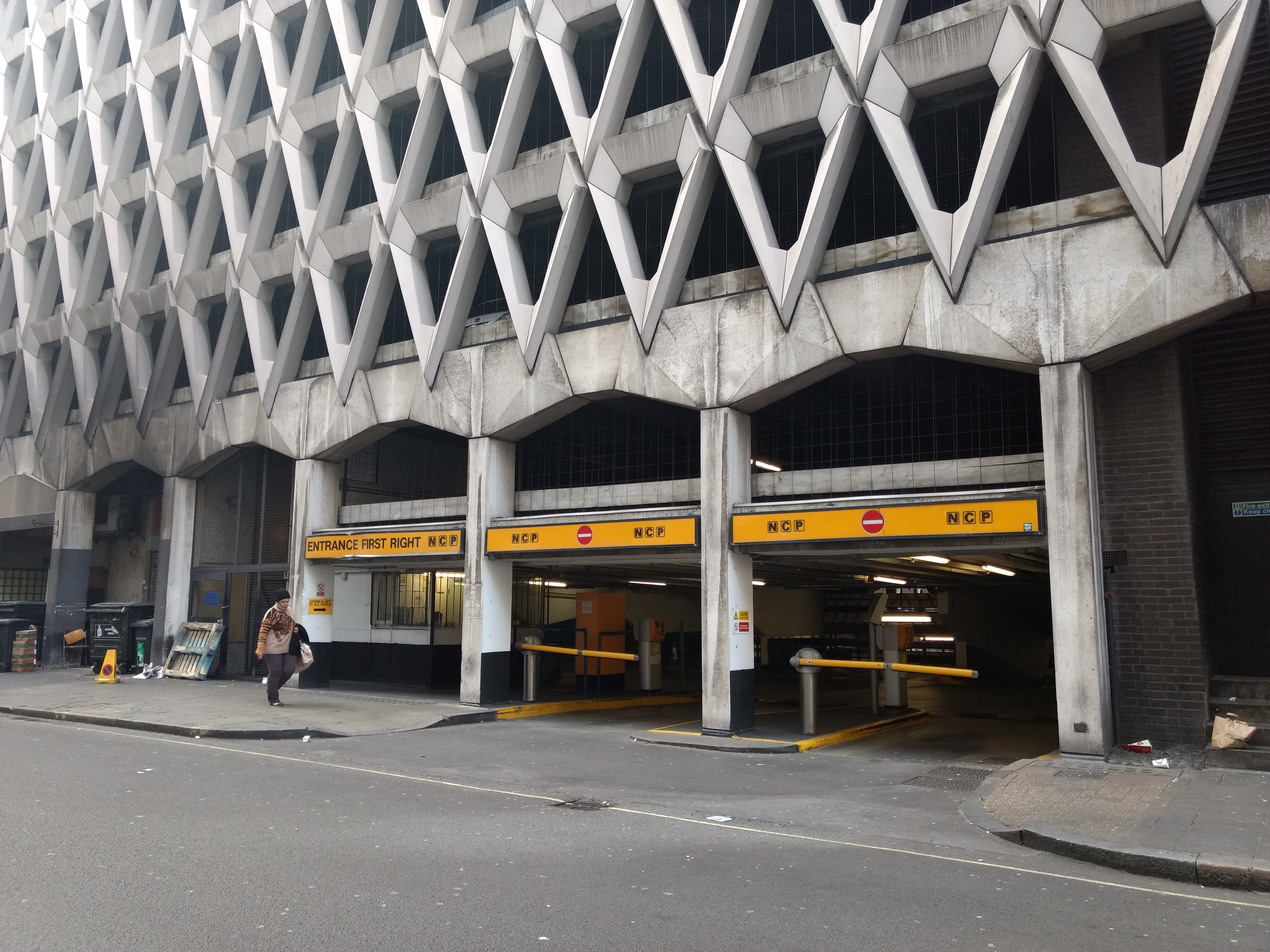 Welbeck Street Car Park